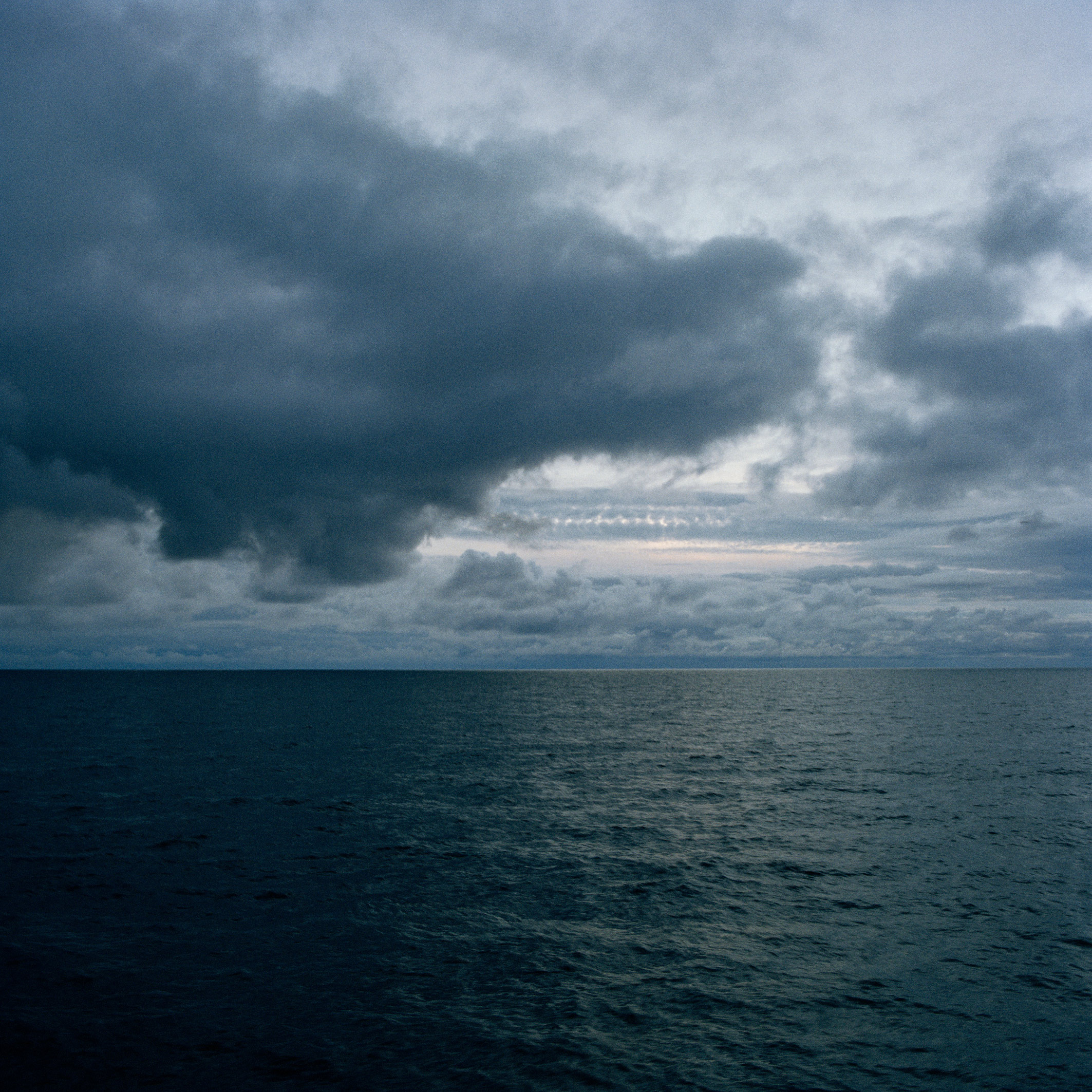 Horizonte, September 11, 2001